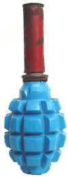 French F1 grenade, with Mle. 1915 Percussion fuze.